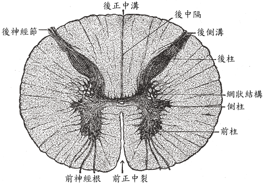 The Chinese Version of Image:Gray664.png. Image:Gray664.png的中文版本